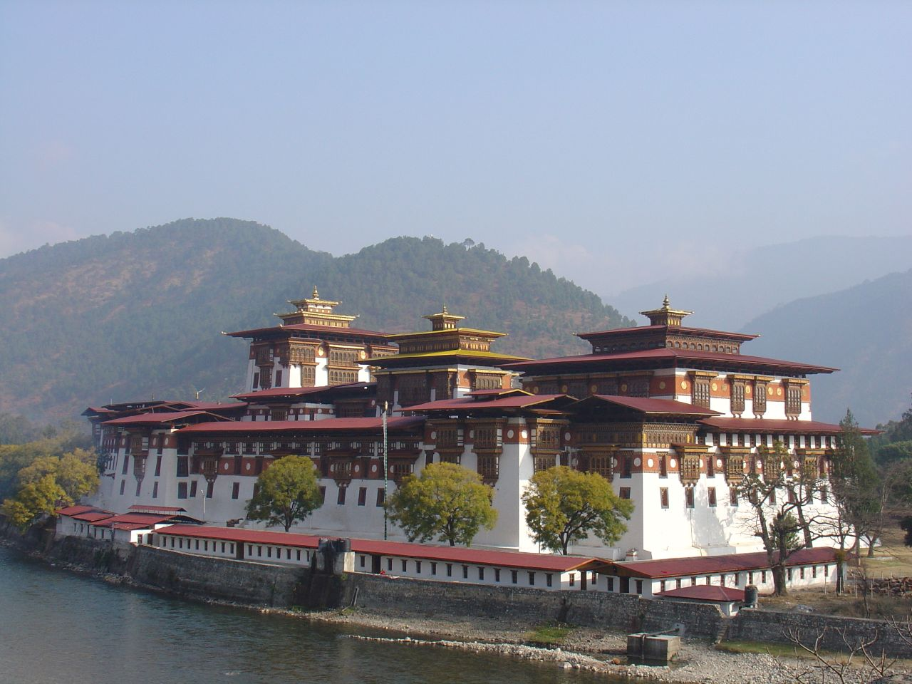 Punakha Dzong Where festival is held